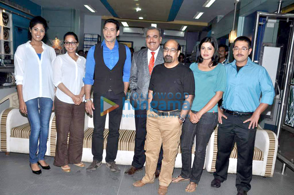 Shraddha Musale, Ansha Sayed, Hrishikesh Pandey, Shivaji Satam, Narendra Gupta, Janvi Chheda at team of CID celebrates Diwali with kids